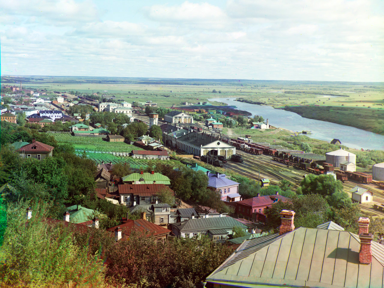 Vladimir city in Russia: view of railroad station and Klyazma river in 1911, photo taken by Sergei Mikhailovich Prokudin-Gorskii and restored in color in 2004 by U. S. Library of Congress; uploaded here for comparison with this 2003 view of the same place.